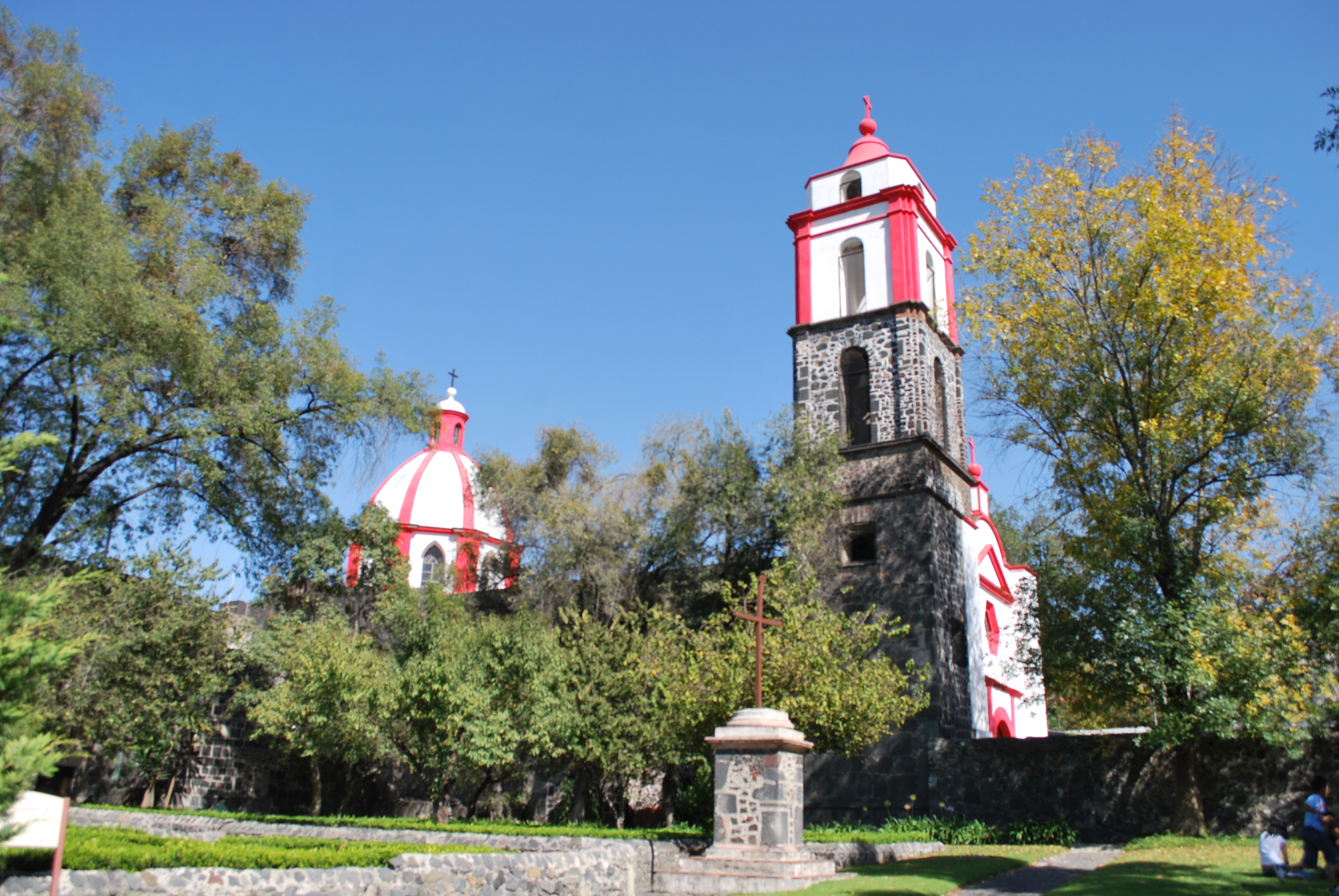 View of the San Juan Evangelista monastery in Culhuacan, Mexico City